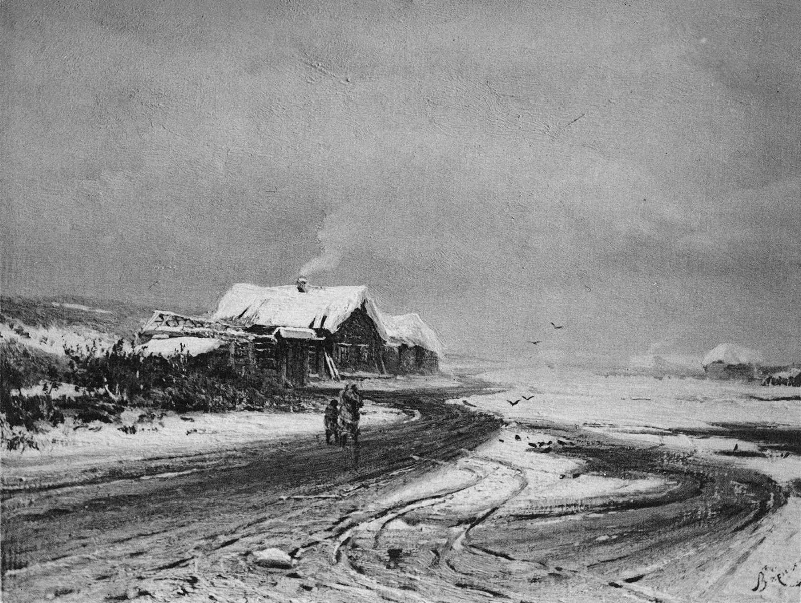 Thaw (study) (painting by Fyodor Vasilyev, 1870, current location unknown)